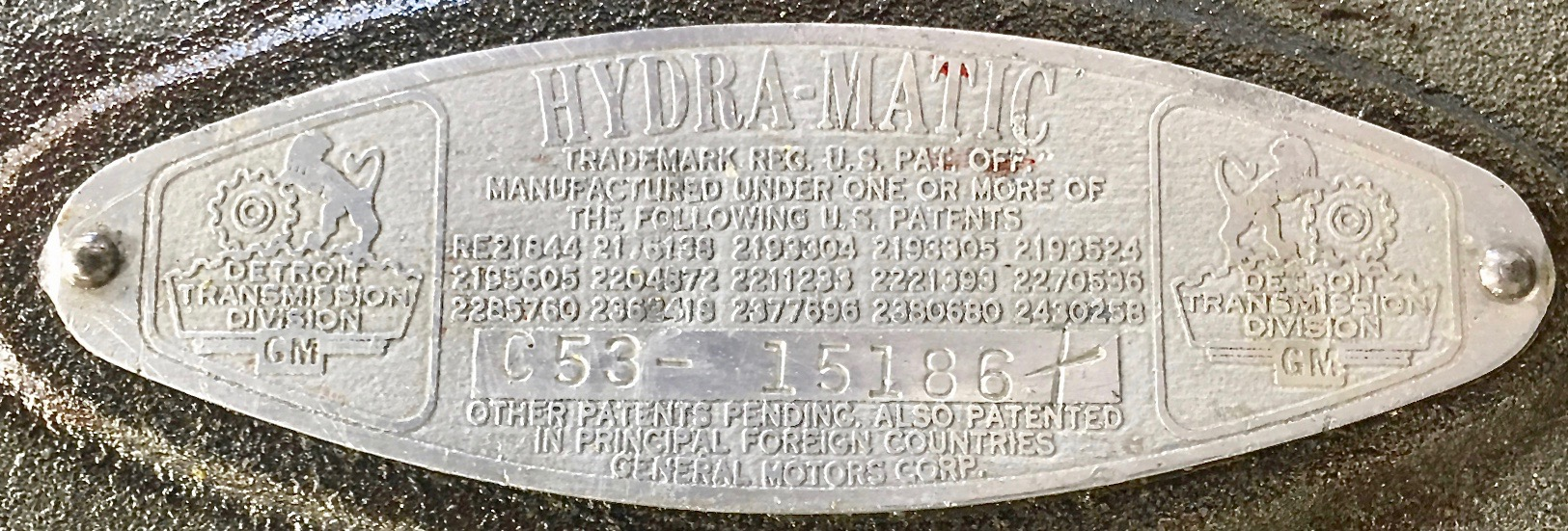 A photograph of the identification tag of a 1953 Hydra-Matic Transmission. This tag shows the 15 US Patents related to the development of this transmission. Nine of the Patents were awarded to Earl A. Thompson, project leader.